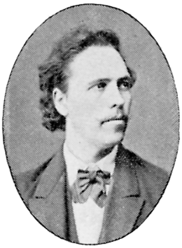 Image scanned from the book "Svenskt Porträttgalleri XX - Arkitekter, Bildhuggare, Målare m.fl. " ("Swedish Portrait Gallery XX - Architects, Sculptors, Painters, ") published 1901